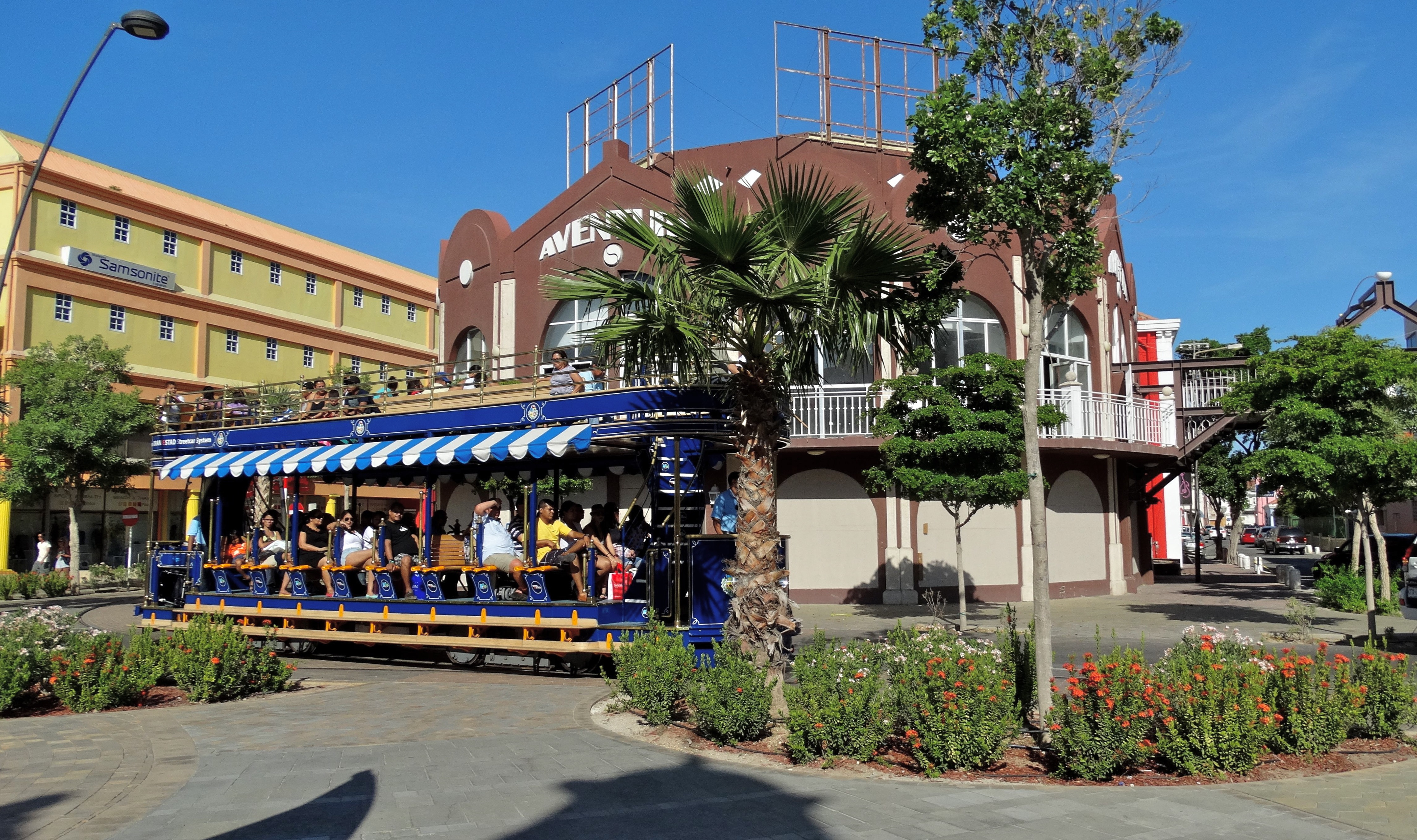 An open-top double-deck trolley car (tramcar) on the tourist trolley line in Oranjestad, Aruba, which is named Oranjestad Streetcar.